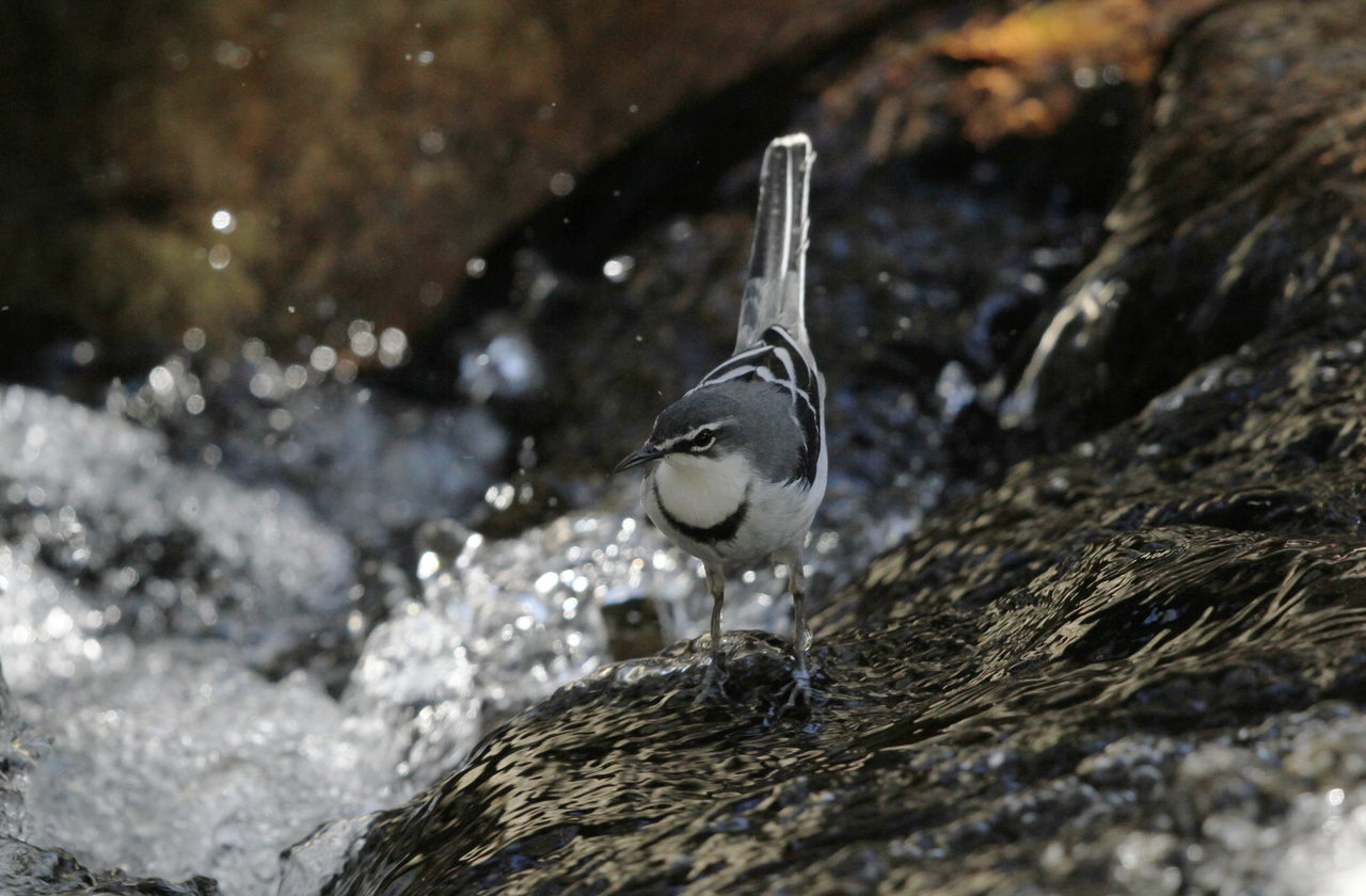 Mountain wagtail (or Long-tailed Wagtail), Motacilla clara at Lekgalameetse Nature Reserve, Limpopo, South Africa